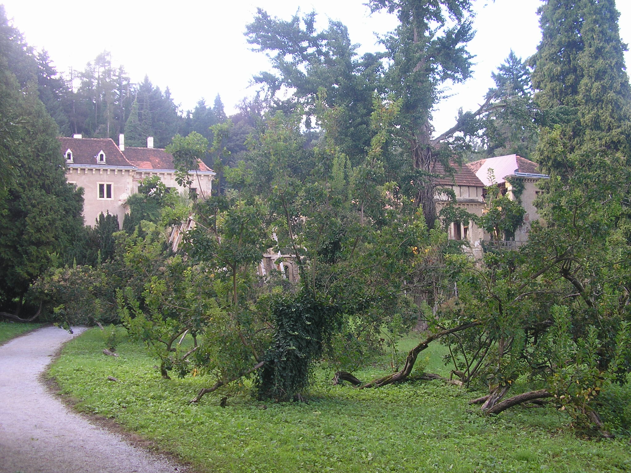 Opeka Manor, Vinica municipality, Varaždin county, Croatia